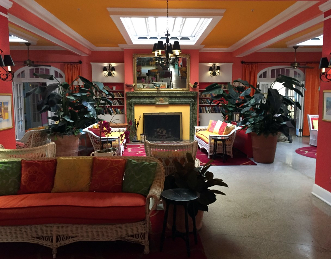 The Colony Hotel, designed by architect Martin Hampton, was built in 1926. The building is a historic landmark, registered with National Trust for Historic Preservations and Historic Hotels of America.